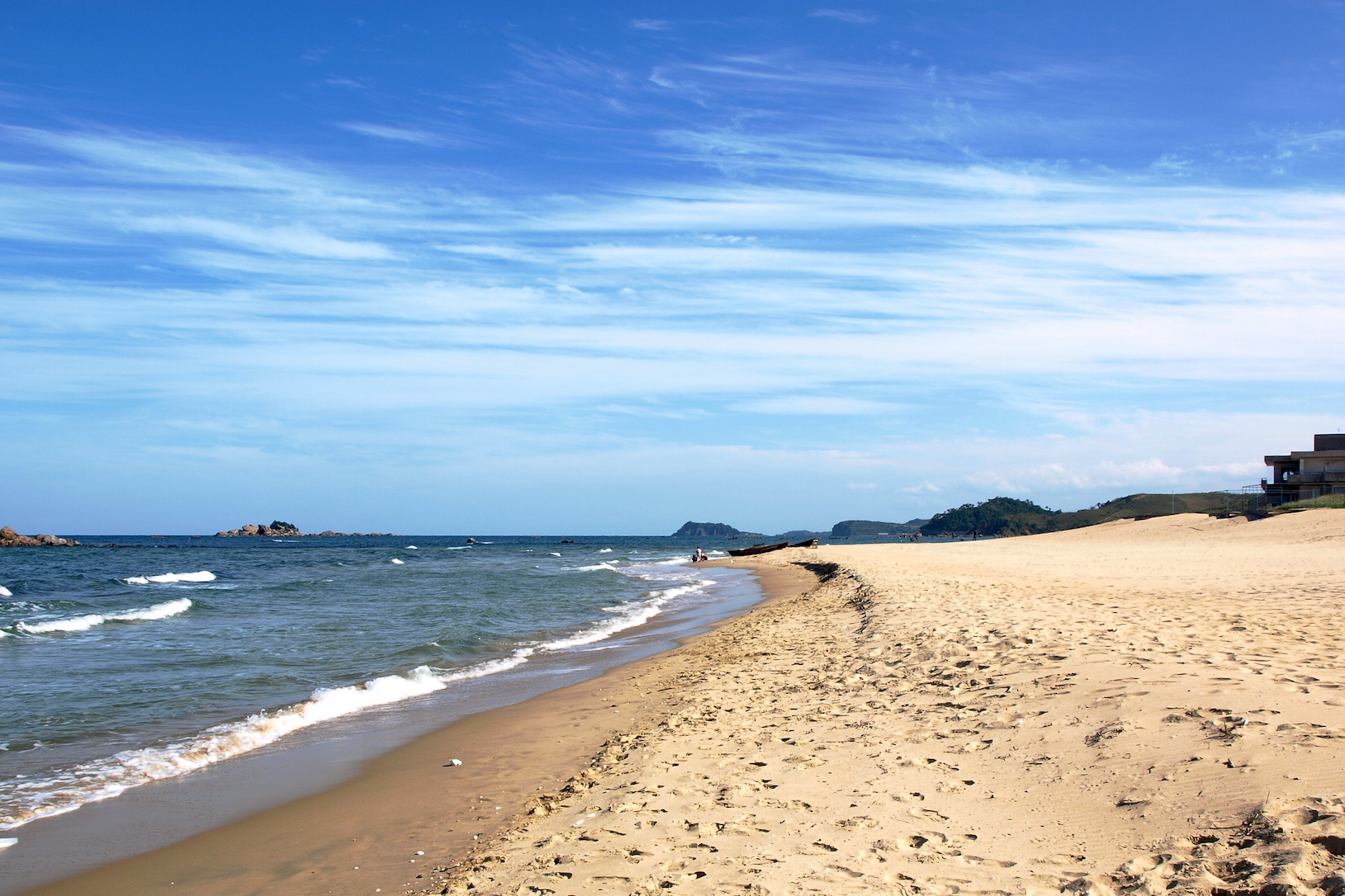 Beach near Lake Sijung, North Korea.